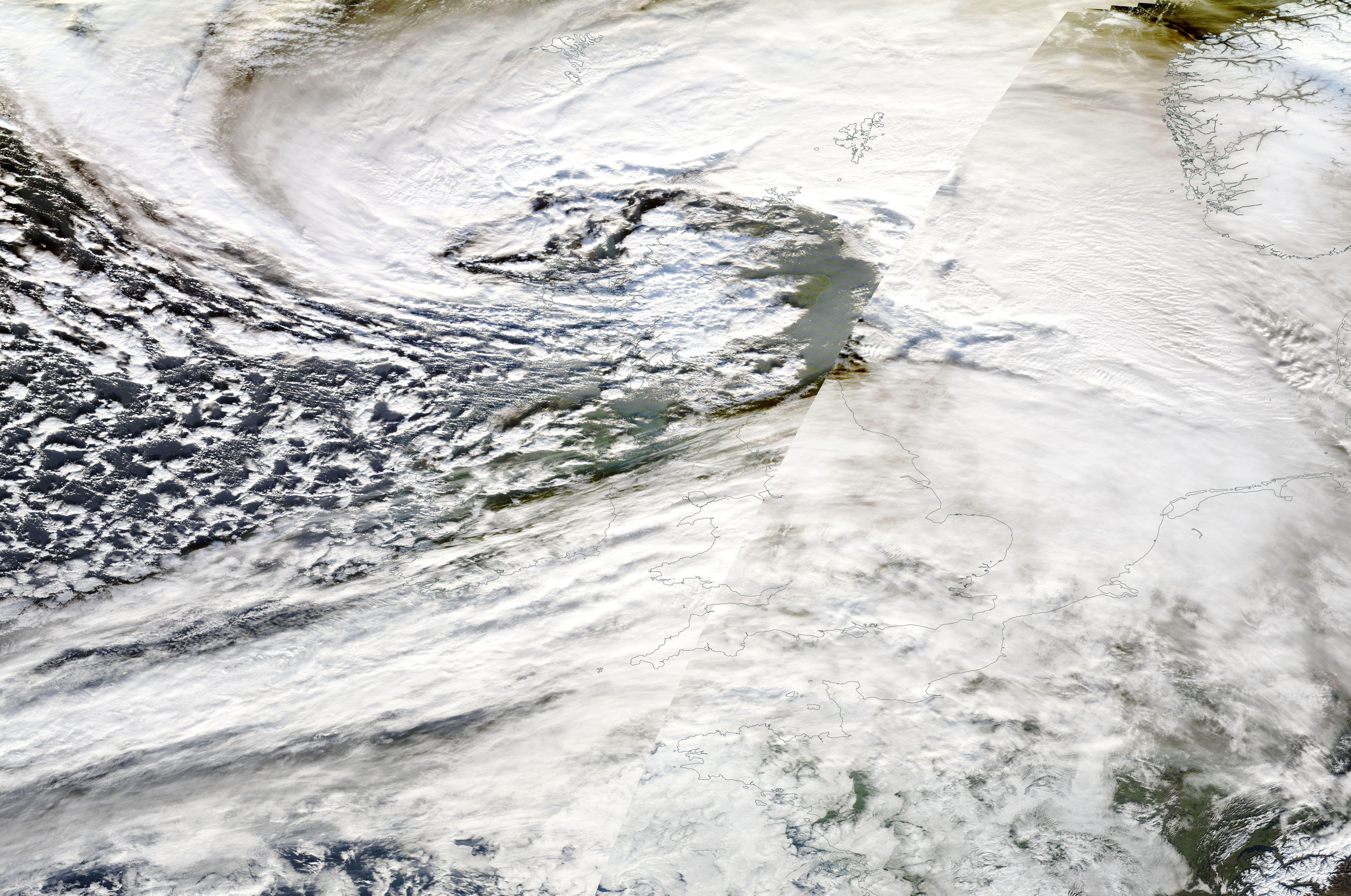 Cyclone Friedhelm (also referred to unofficially as Hurricane Bawbag) crossing the British Isles on 8 December 2011.